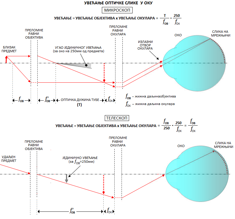 УВЕЋАЊЕ ОПТИЧКЕ СЛИКЕ У ОКУ